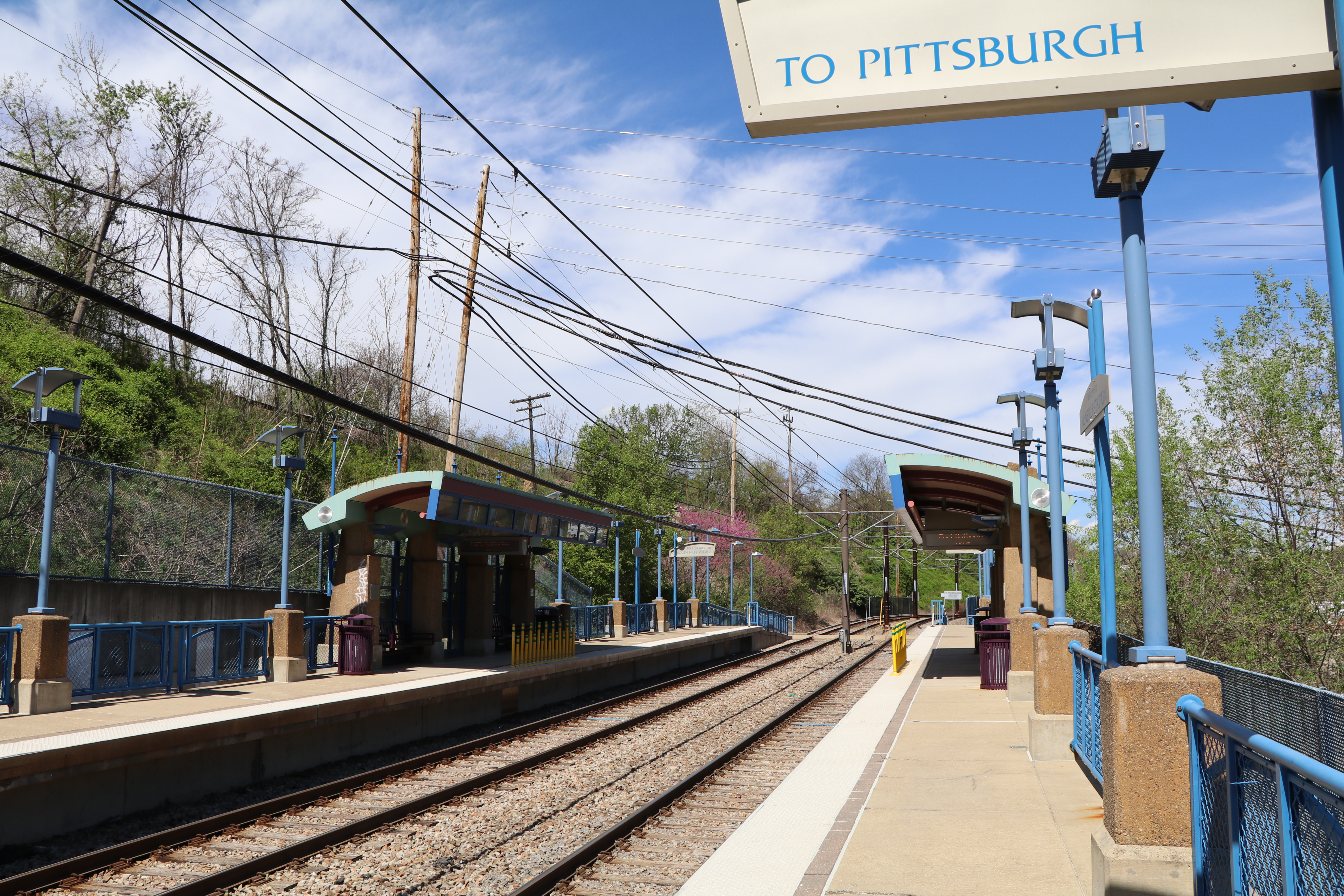 McNeilly station on the Blue Line, Overbrook, PA. View looking north, with the inbound platform on the right.